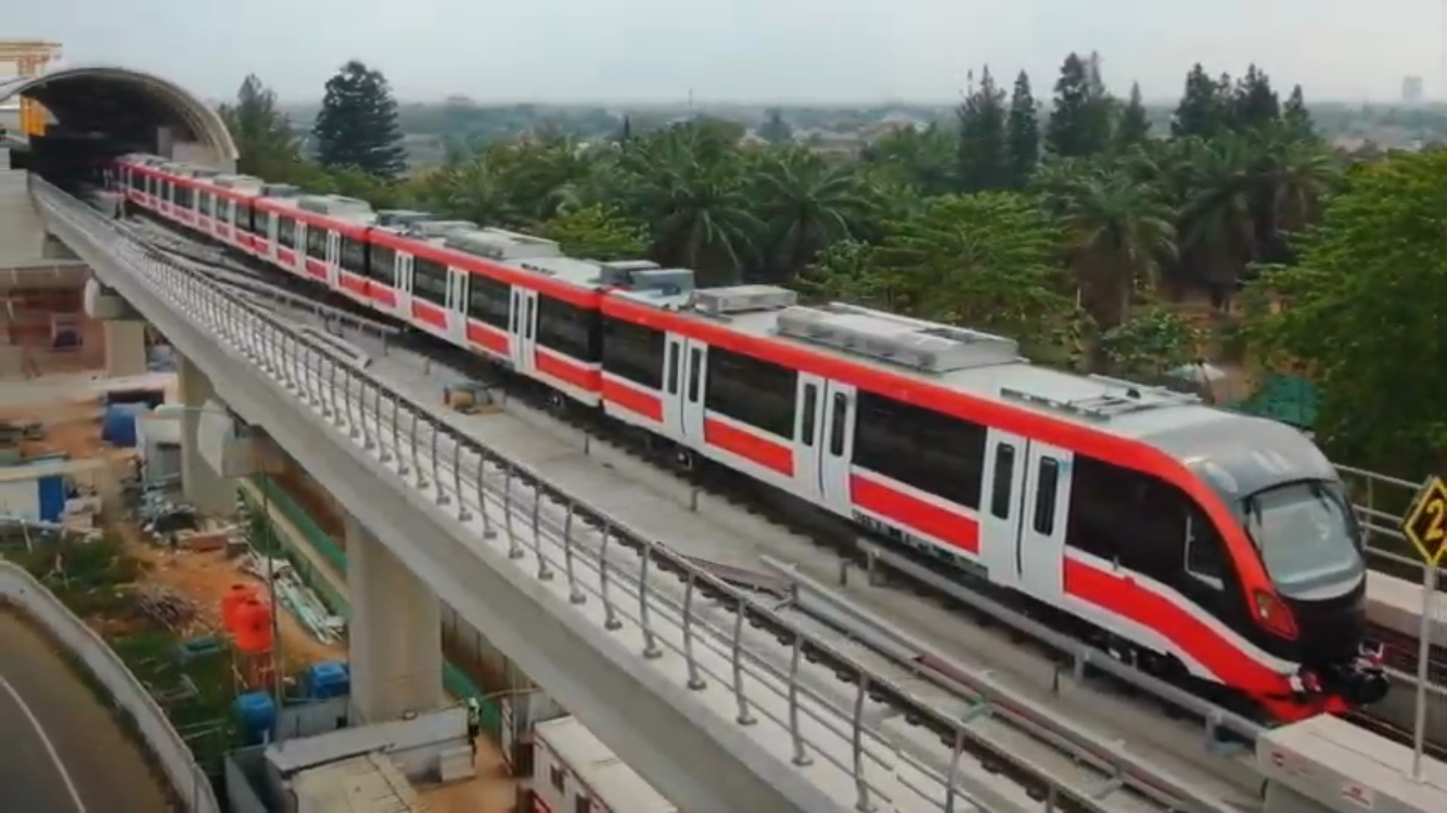 LRT Jabodebek train during test run.